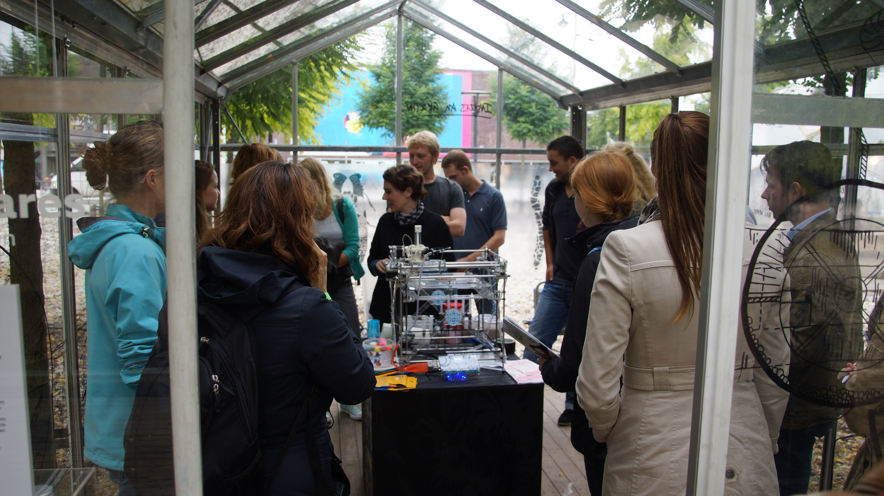 Insects au gratin by Susana Soares Susana Soares from the United Kingdom demonstrated at the World Food Festival from 18 September to 27 October 2013 in Rotterdam that insects are an very effective source of protein and a realistic alternative to eating meat. However, many people are objecting to the concept of eating insects. Therefore, Susana Soares used a three dimensional printer to turn flour which was made from ground insects int all sorts of shapes. She forecastst hat in future there will be a 3D printer min many households near to the blender and kettle.